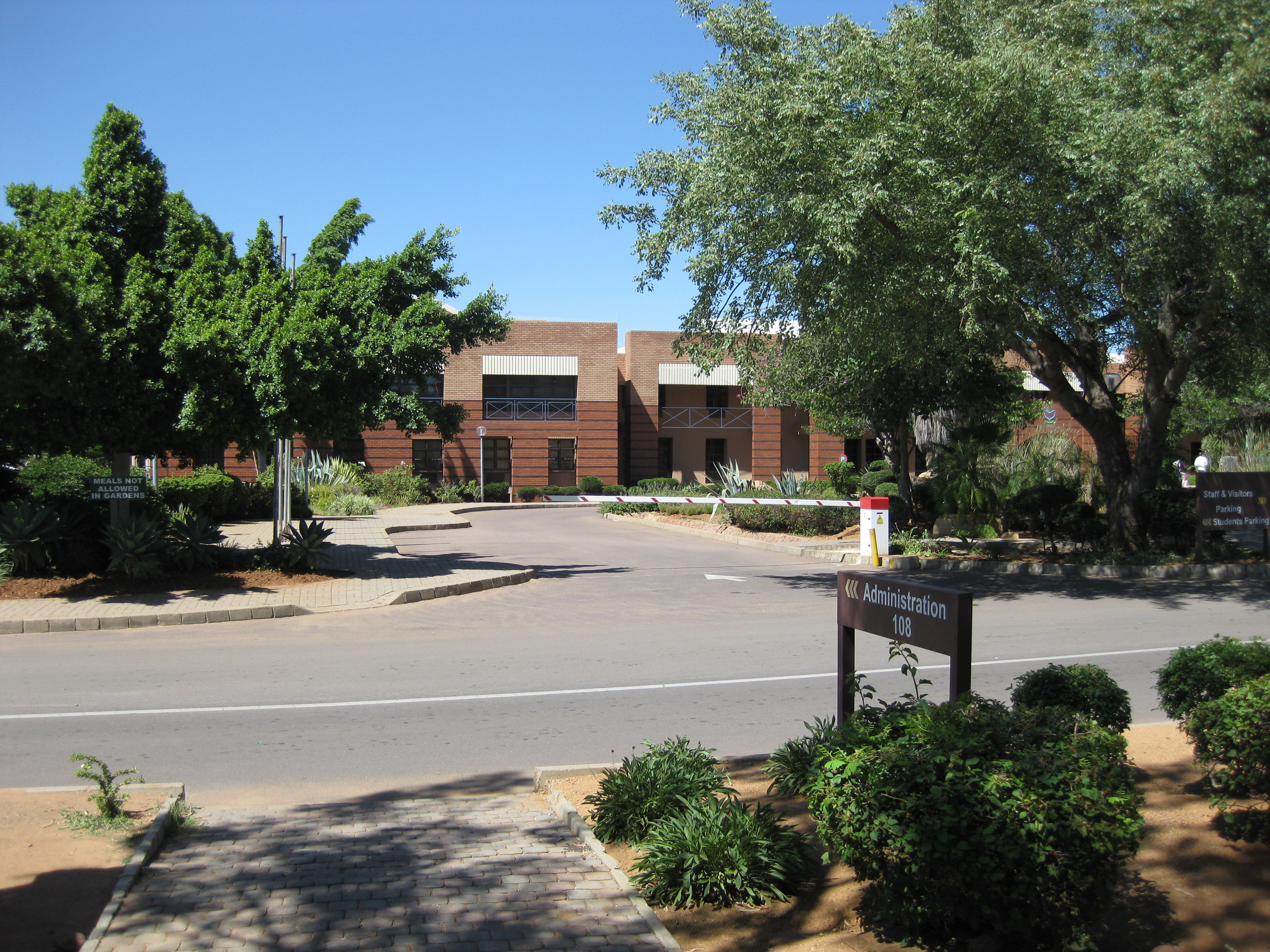 University of Botswana Administration Building in Gaborone, Botswana